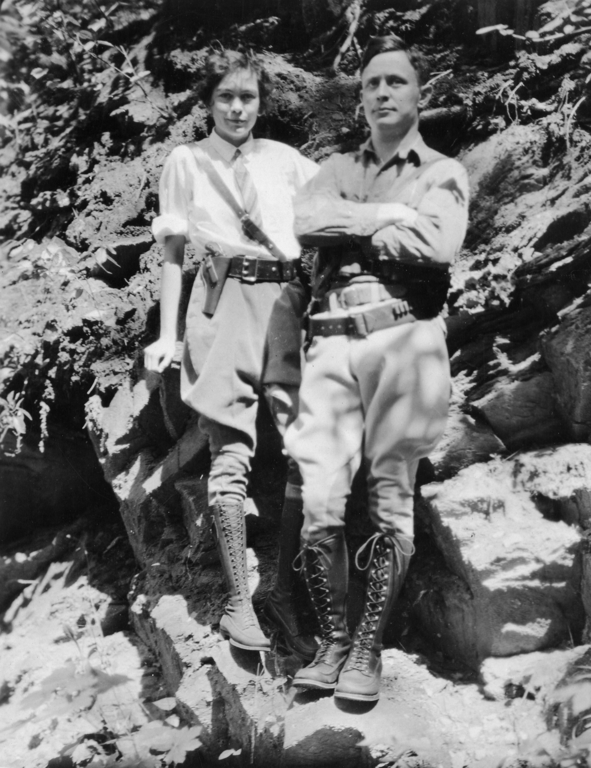 Description: Odd Dahl (1899-1994) was a Norwegian adventurer who had no formal scientific training but later made great contributions to research on atomic energy. He read physics while a member of Roald Amundsen's expedition to the Arctic. During the 1930s, Odd Dahl joined the staff of the Carnegie Institution in Washington as a member of the team developing the Van de Graff generator and later led Norway's atomic energy program. He is shown here with his wife Anna "Vesse" Dahl.